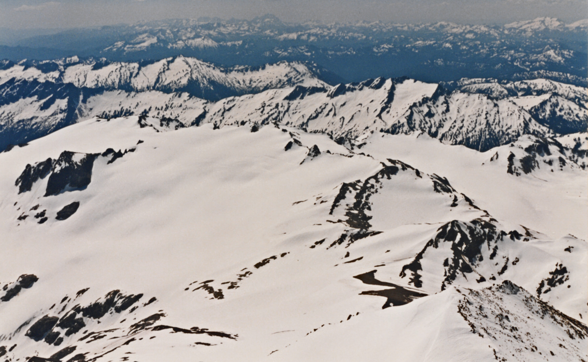 Kololo Peaks and Suiattle Glacier seen from Glacier Peak in the North Cascades.